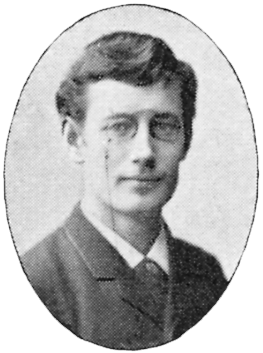 Image scanned from the book "Svenskt Porträttgalleri XX - Arkitekter, Bildhuggare, Målare m.fl. " ("Swedish Portrait Gallery XX - Architects, Sculptors, Painters, ") published 1901